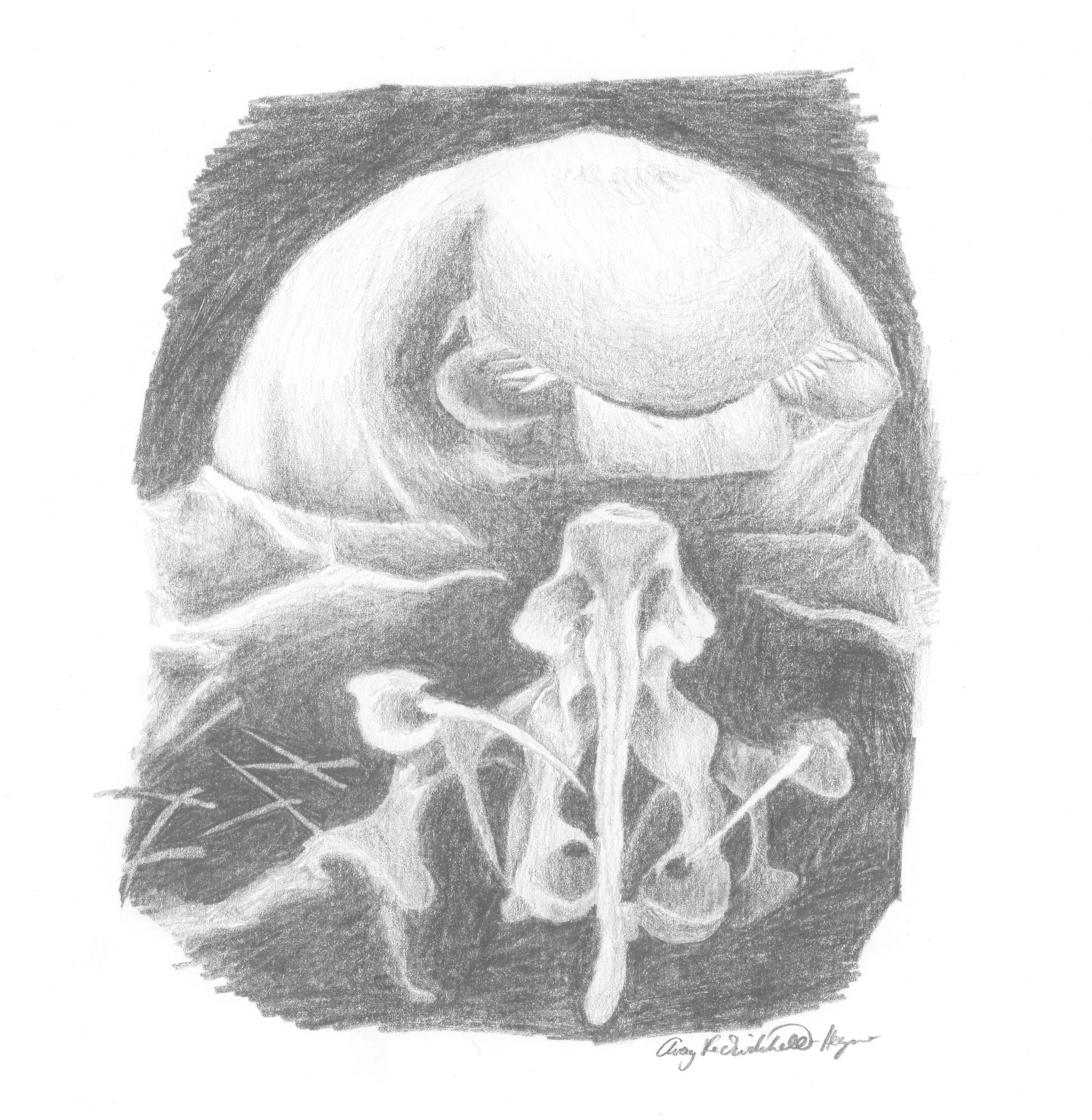 A drawing of the ventral view of the stenocephalic head of a final instar larva of the ant species Leptanilla japonica.